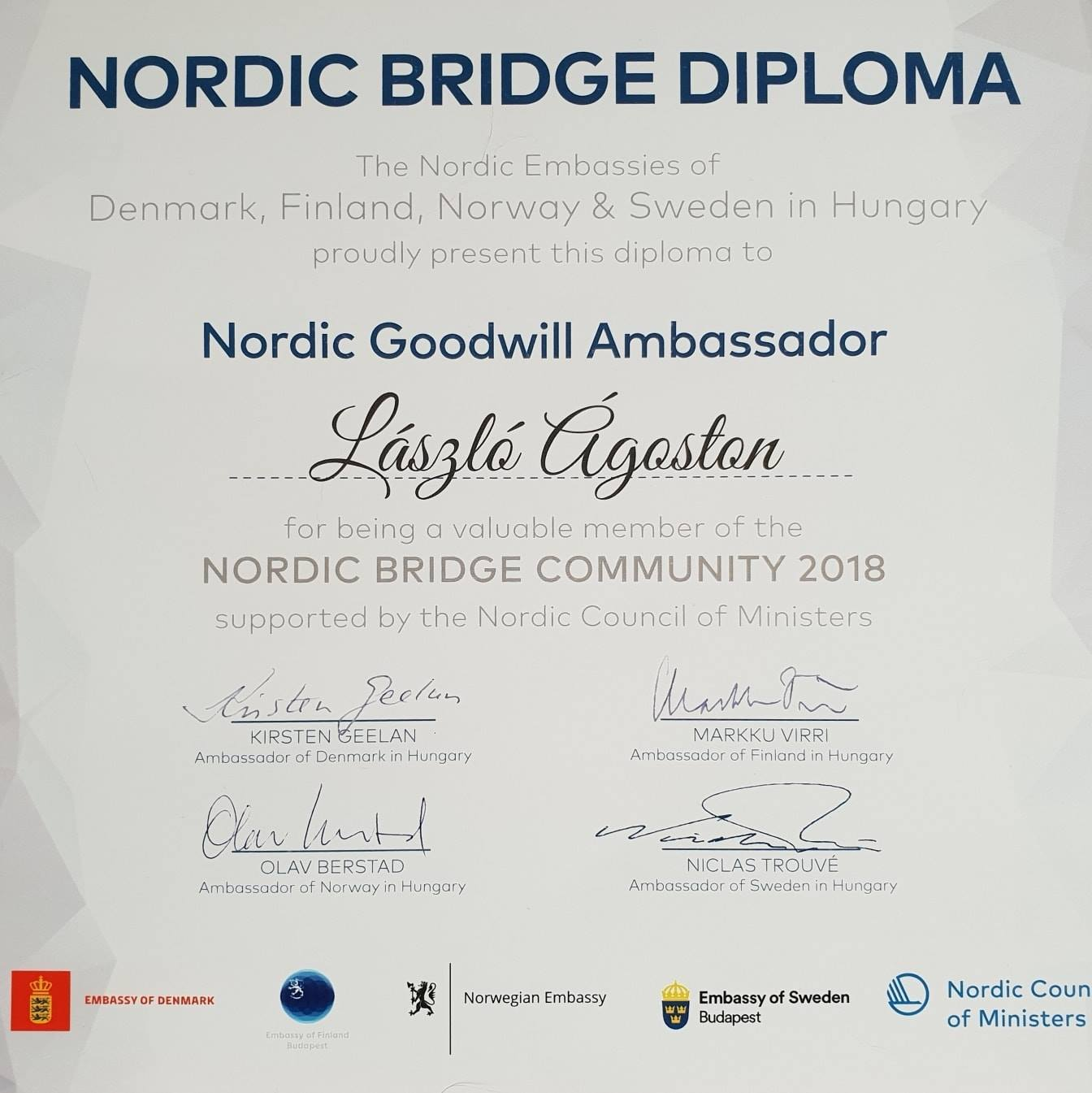 Laszlo Agoston's diploma from 2018